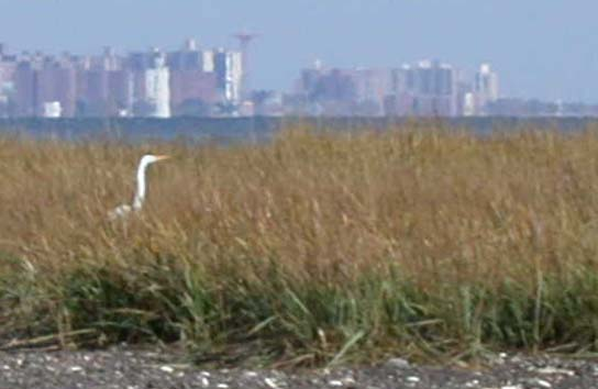 Great Egret in Staten Island, showing Coney Island, Brooklyn © 2002 Matthew Trump